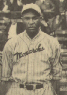 Dink Mothell at the 1924 Colored World Series. LOC states here that there are no restrictions on use of this image, therefore it is PD. This file has been extracted from another file: 1924 Negro League World Series.jpg